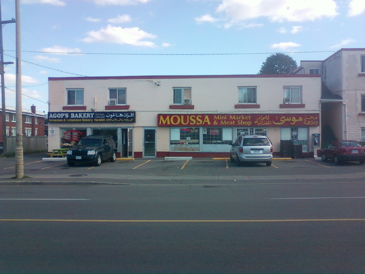 Arabic inscriptions on shops in McArthur Avenue, Vanier, Ottawa. Summer 2011